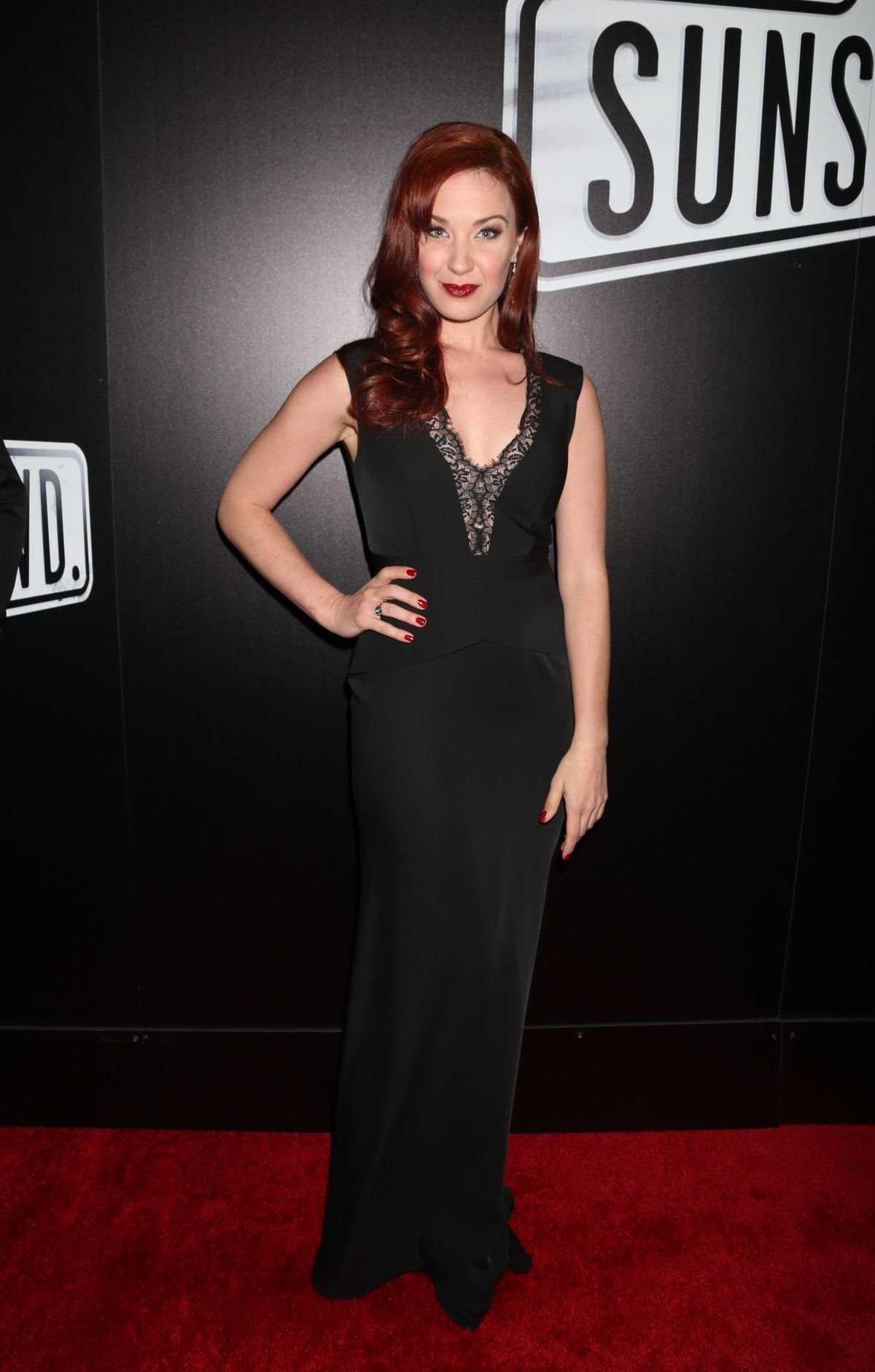 Sierra Boggess